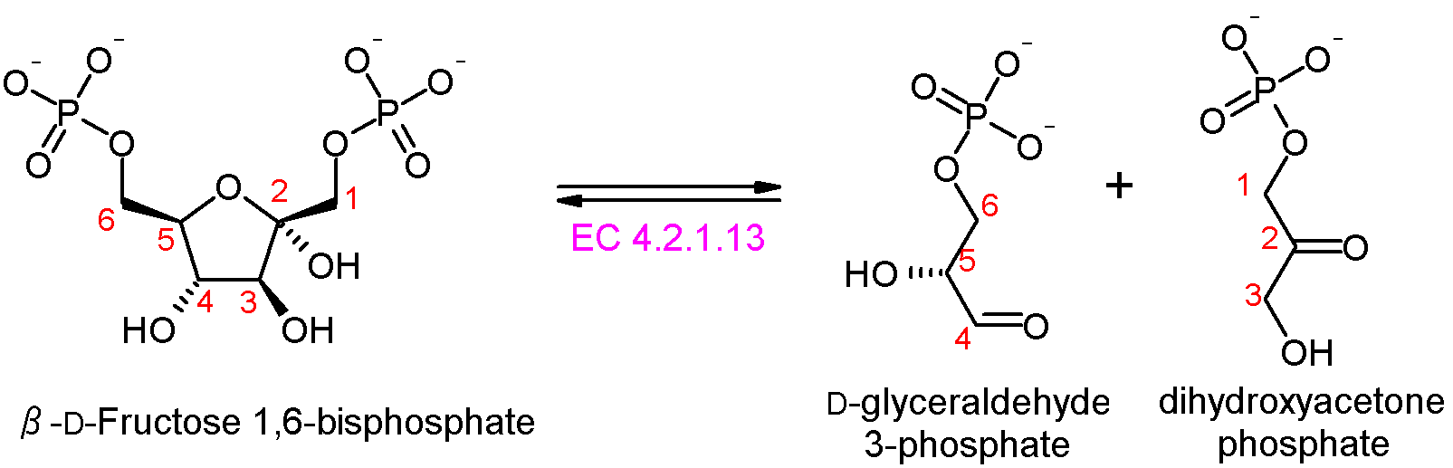 Glycolysis, F1,6BP-GADP,DHAP